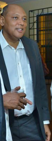 Raphael Trotman, Speaker of the National Assembly of Guyana